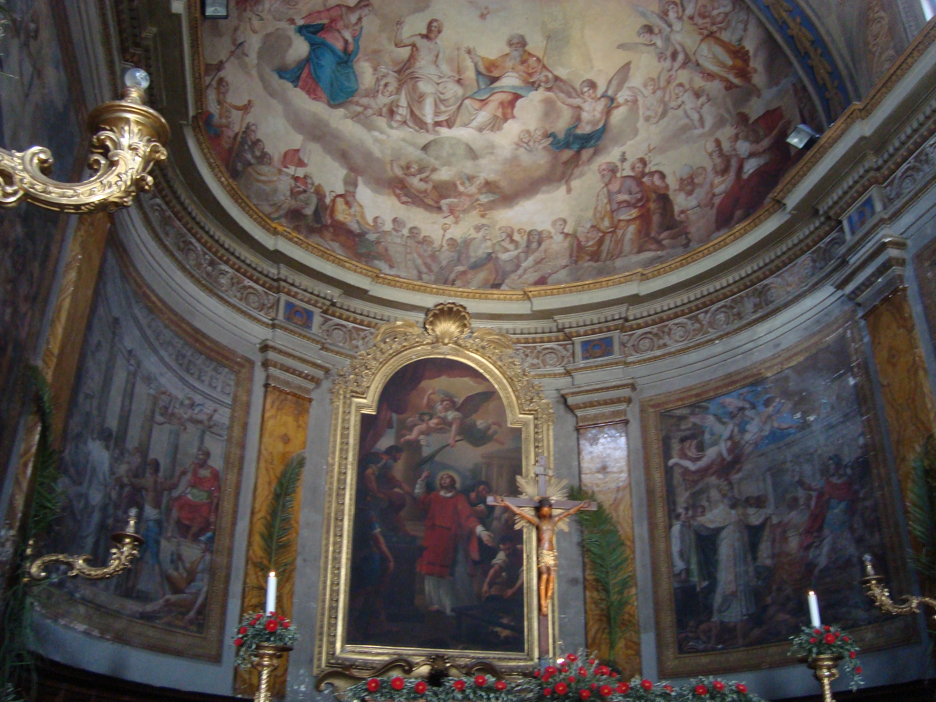 Apse of the cathedral San Lorenzo in Tivoli In the center, we can see the altarpiece with St. Lawrence before the judge, by Pietro Labruzzi (1800). To the sides, the paintings by Angelo De Angelis (1816), representing St. Symphorosa before emperor Hadrian (left) and St. Simplicius who is fighting against the haeretics (right). Above, The glory of Paradise, by De Angelis himself. The wooden Crucifix above the altar goes back to 15th century.